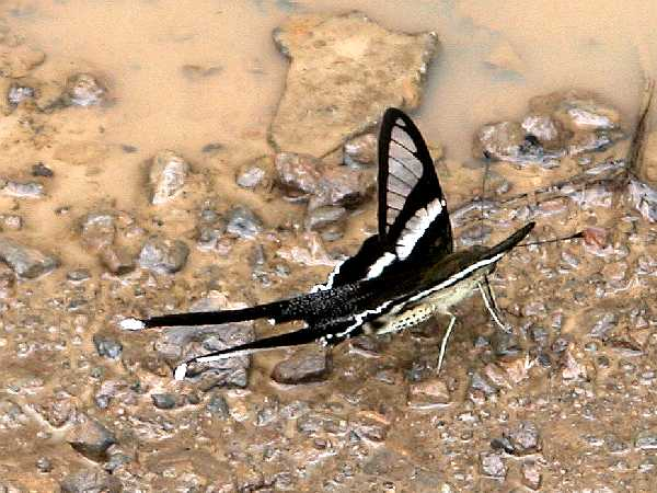 The White Dragontail, Lamproptera curius taken at Jairampur, Arunachal Pardesh, India.